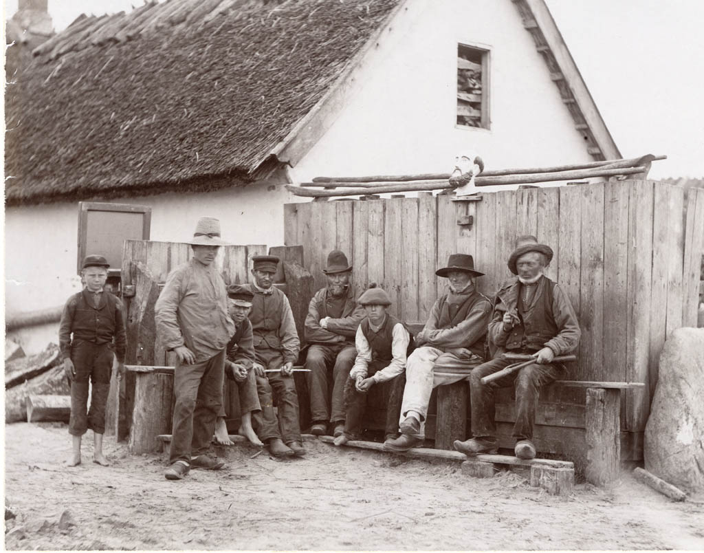 Fishermen in Hornbaek north of Helsingør.